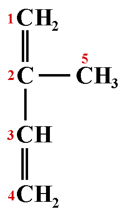 Isoprene